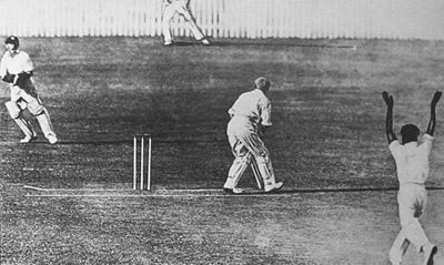 Eddie Gilbert, Queensland cricketer dismisses Don Bradman for 0, Queensland v S Australia, Brisbane, November 1931 Source: Cricinfo